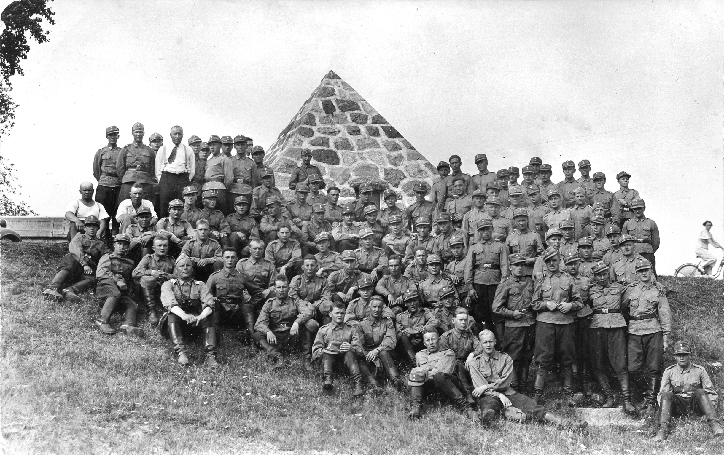 Finnish conscripts posing next to the Memorial to the Battle of Kivinebb (1555), ca. June 1938, Kivennapa municipality, Karelian Isthmus, Finland. The monument was built in 1931 by the Finns, and it was demolished by the Russians in 1963.